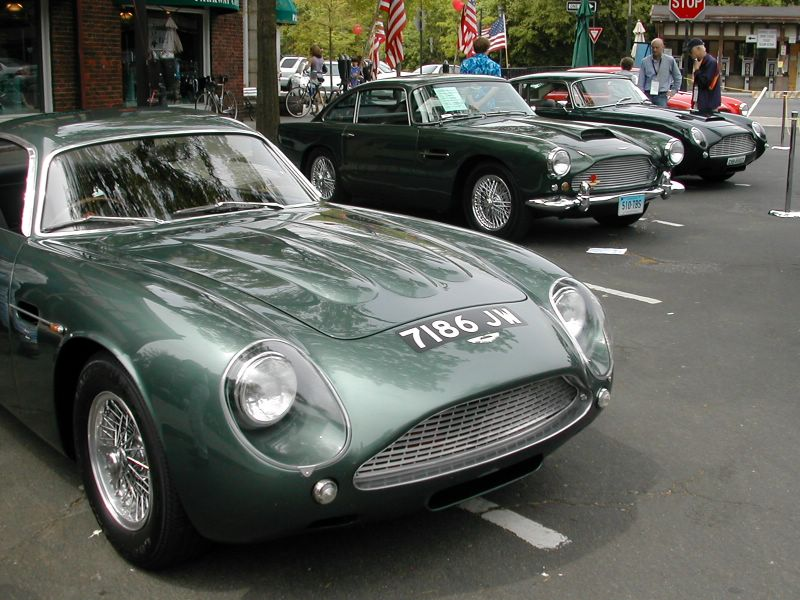 Foreground: 1988 Sanction II Aston Martin DB4GT Zagato (s/n 0196, l/n "7186 JW"). Then, moving to the right, an Aston DB4, and DB5. This is at the Scarsdale Concours d'Elegance on 15 May 2005.[1]